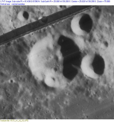 Haidinger lunar crater - Lunar Orbiter -IV image LO-IV-131H